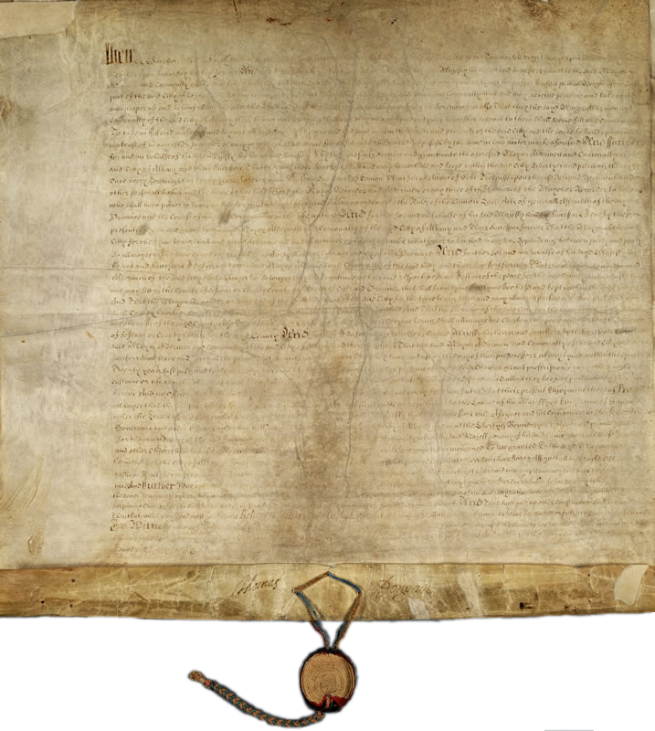 Partially unfolded Dongan Charter (1686), the original city charter of Albany, New York, United States